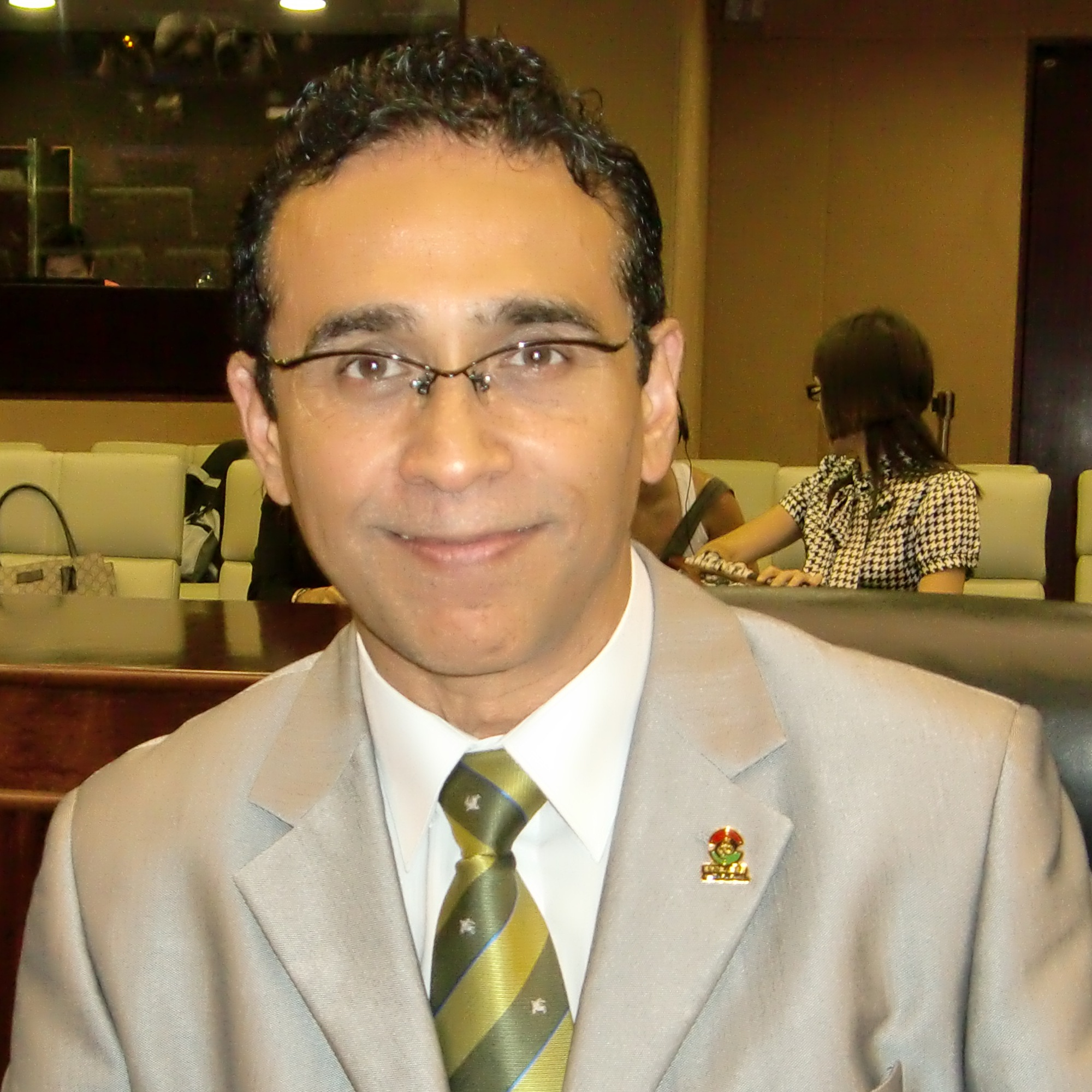 José Pereira Coutinho, Macanese legislator of MSAR